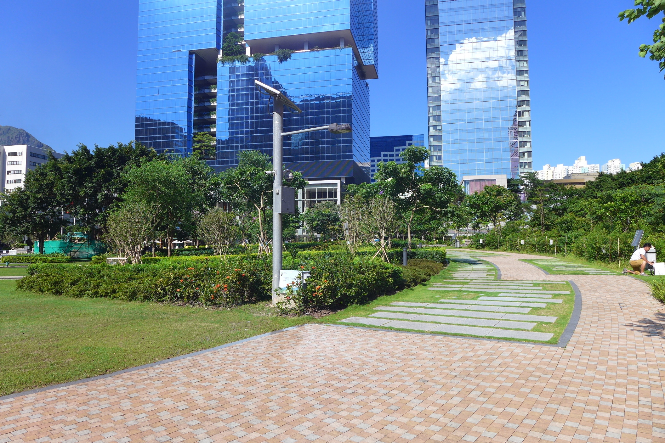 CIC Zero Carbon Building Urban native woodland